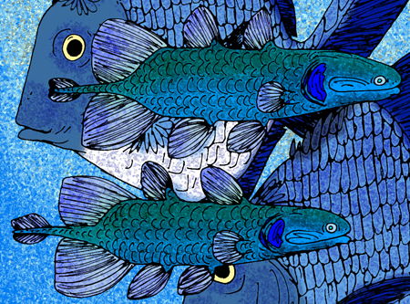 The Permian coelacanth, Coelacanthus whitea, of what is now Alberta, Canada. (C) Stanton F. Fink